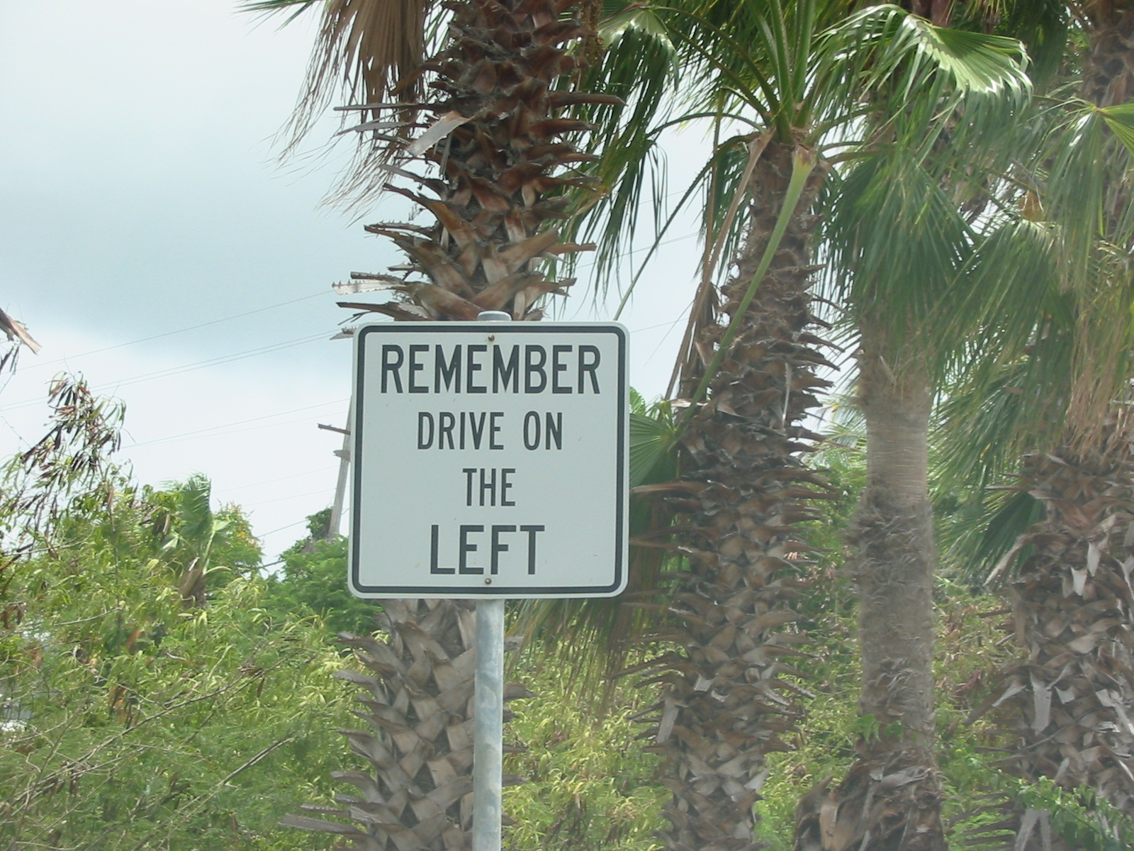 This is a photo of a street sign taken just outside the Marriott Frenchman's Reef hotel on St. Thomas, USVI. St. Thomas uses US-spec vehicles that are left-hand-drive, but driving is done on the left side of the road.